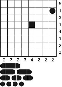 Bimaru Puzzle